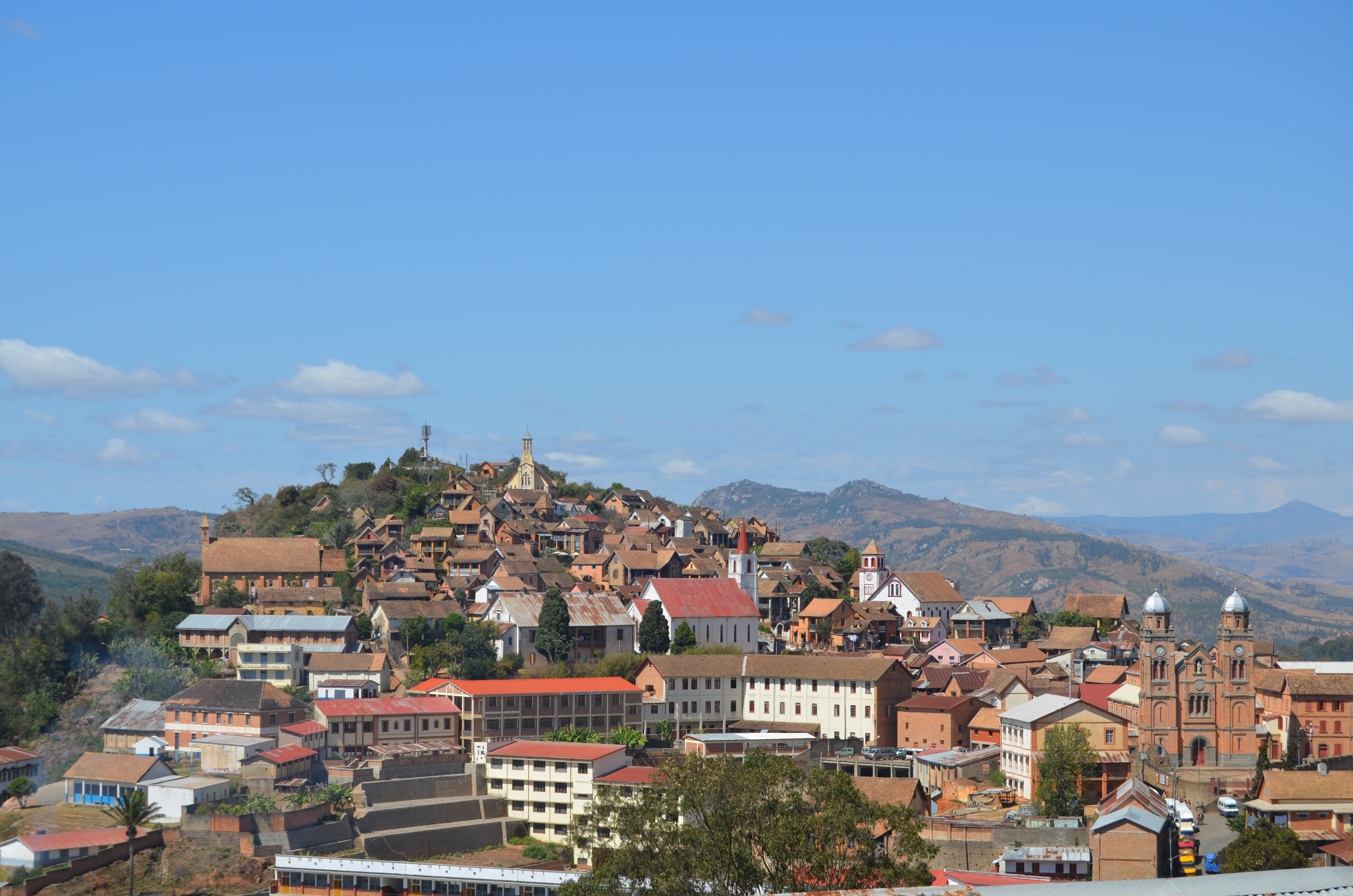 Global view of the city of Fianarantsoa.